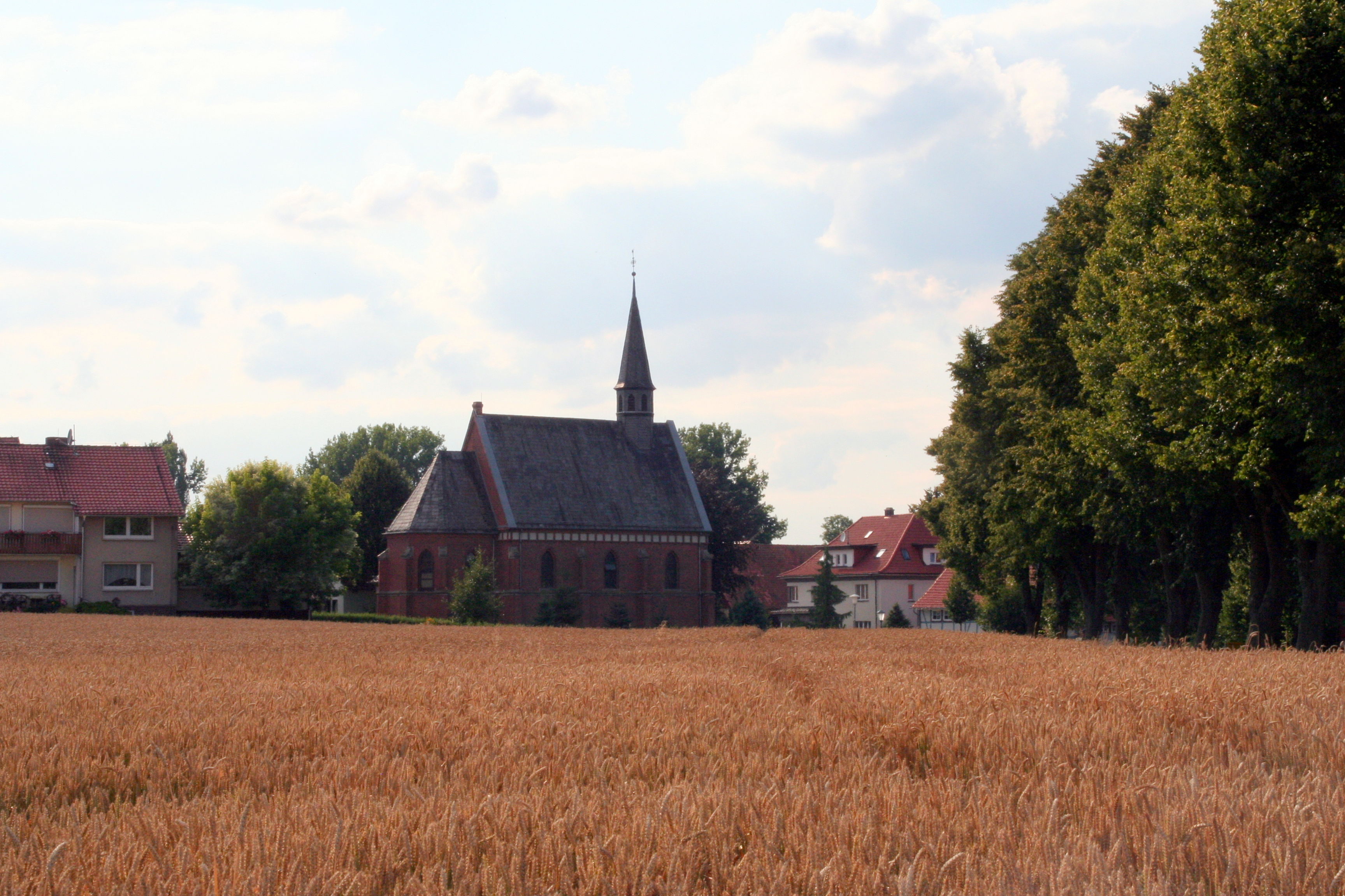 Esplingerode, district of Göttingen